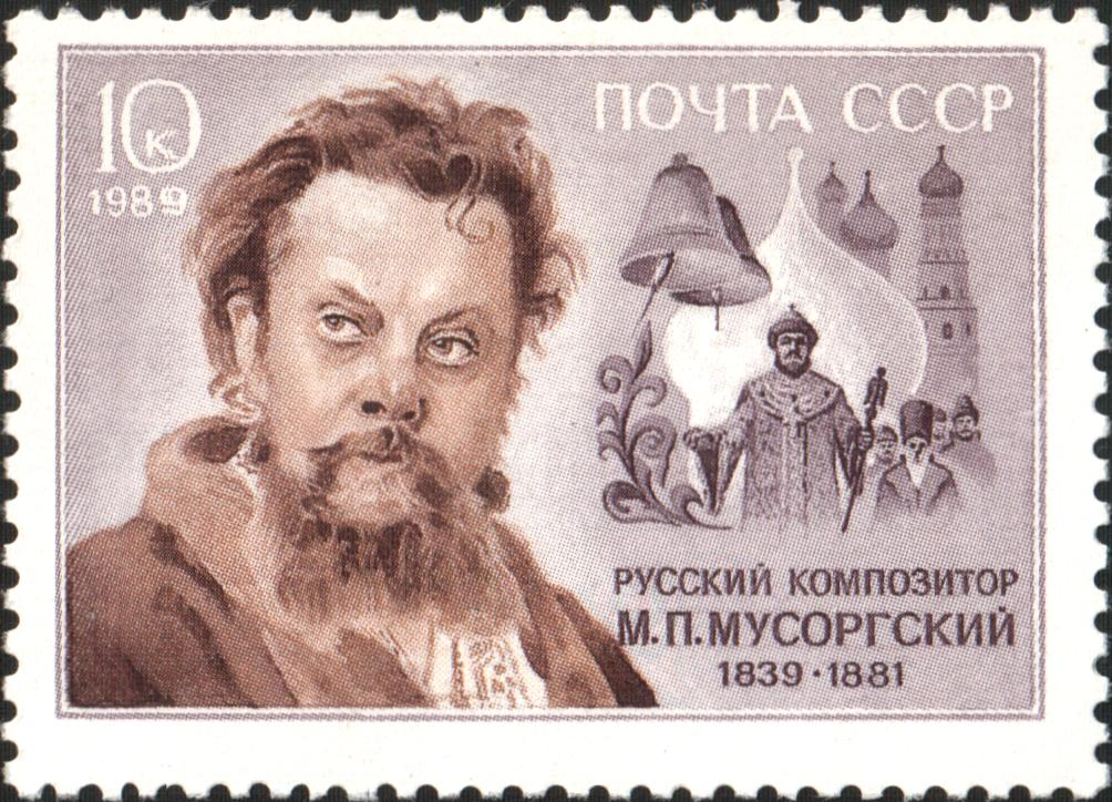 USSR stamp